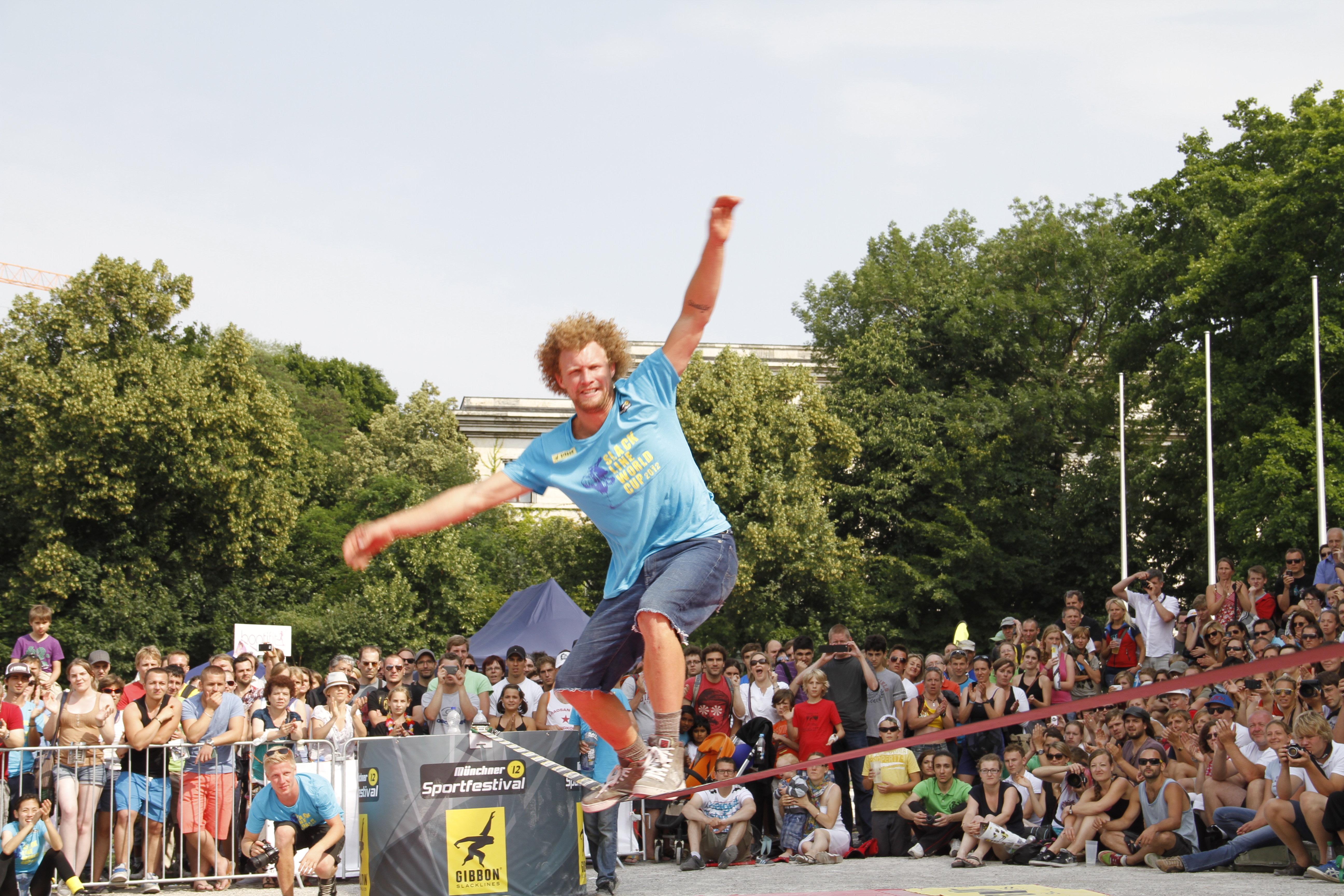 Andy Lewis, slackline and stunt artist and performer, at the slackline world cup event 2012-07-01 in Munich, Germany